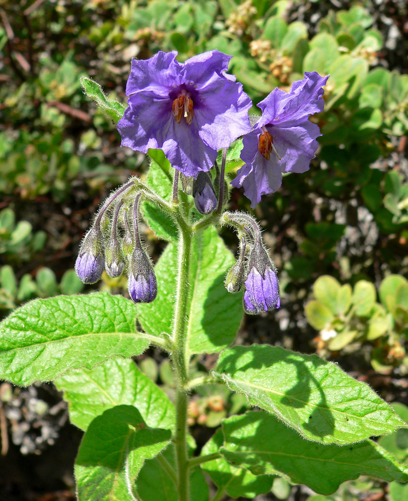 Photo of Solanum wallacei at the Regional Parks Botanic Garden, Berkeley, California